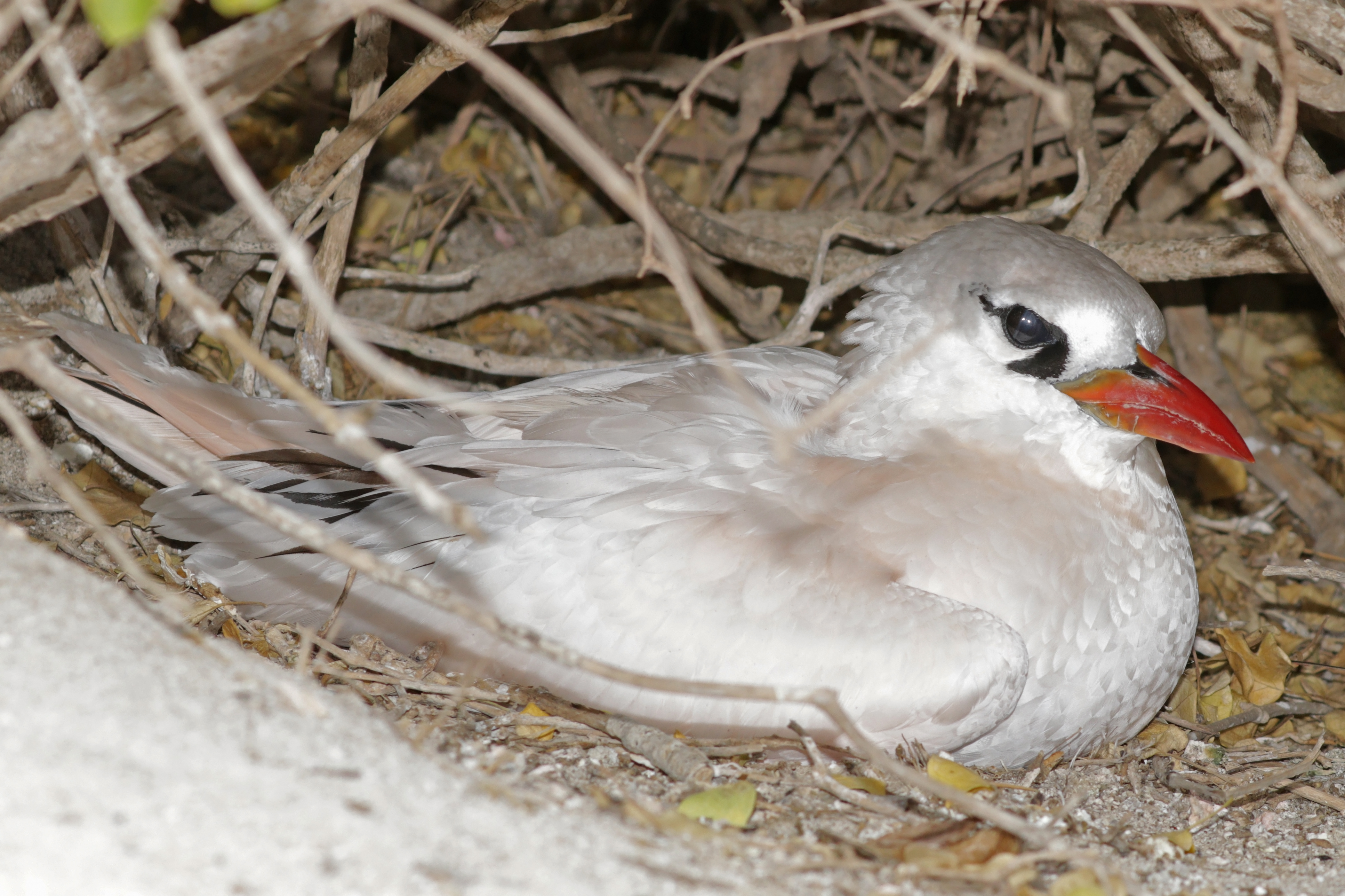 Red-tailed tropicbird (Phaethon rubricauda rubricauda) nesting on Nosy Ve, Madagascar